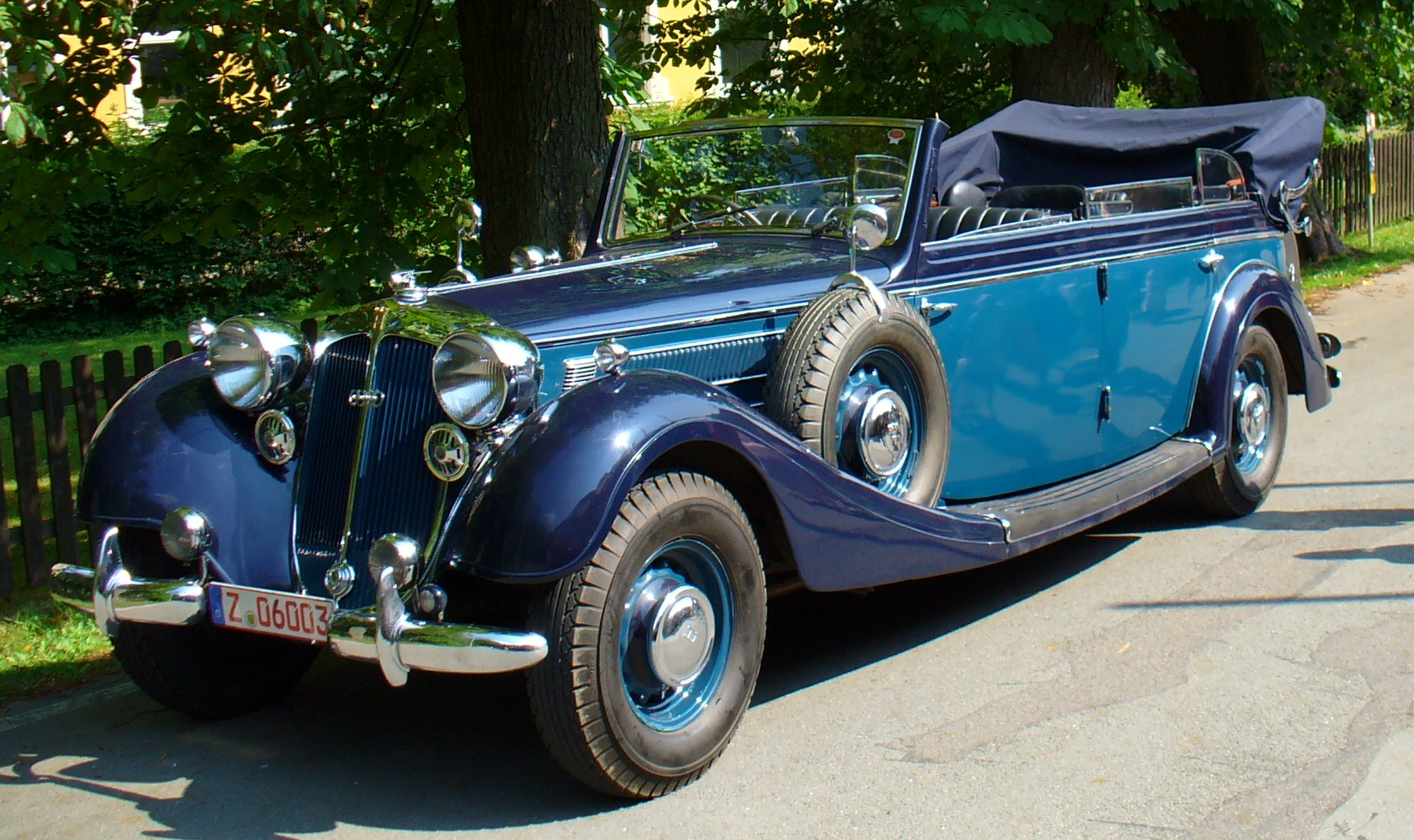 former official car of the German Ambassador Otto Erich Meynell and Hermann Terdenge in Buen Aires (Argentina)